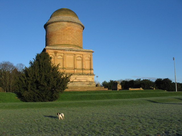 The golden glow of the Hamilton mausoleum on a December afternoon. A majestic building demonstrating masonic and architectural skills at their best.